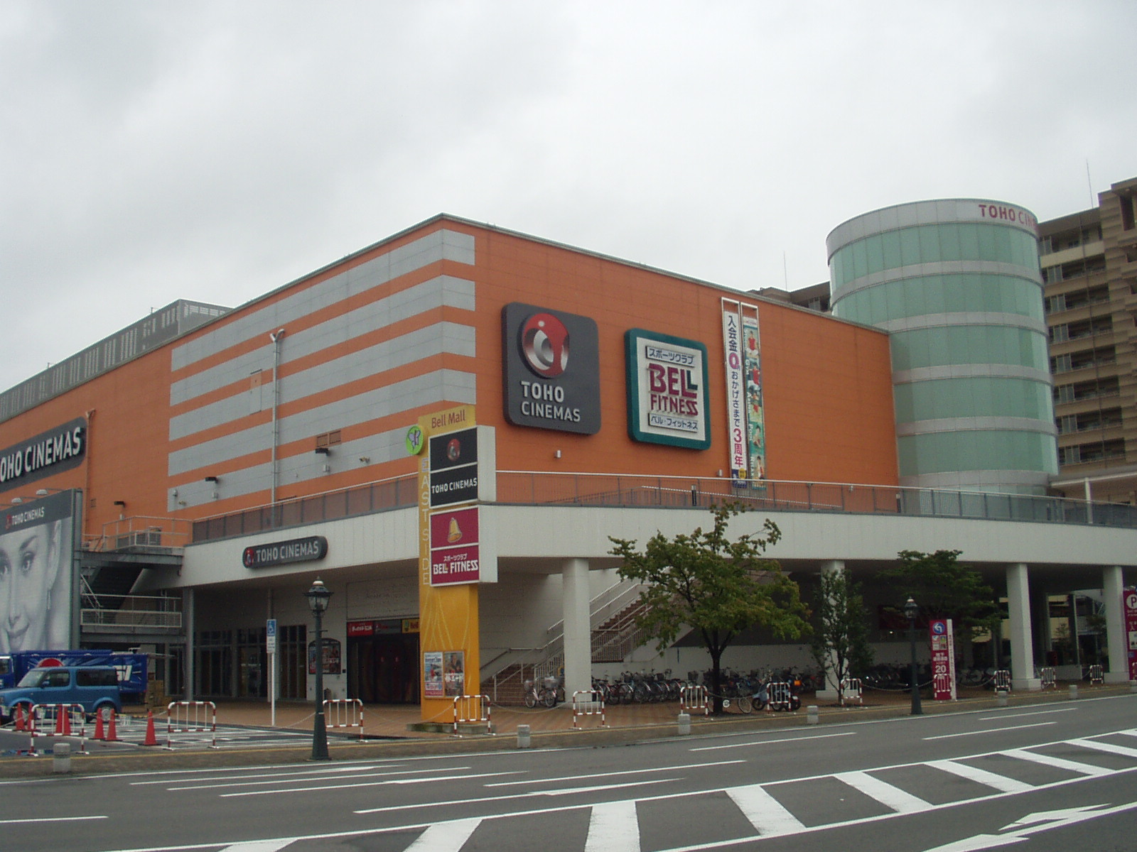 Toho Cinemas Utsunomiya & Bell fittness